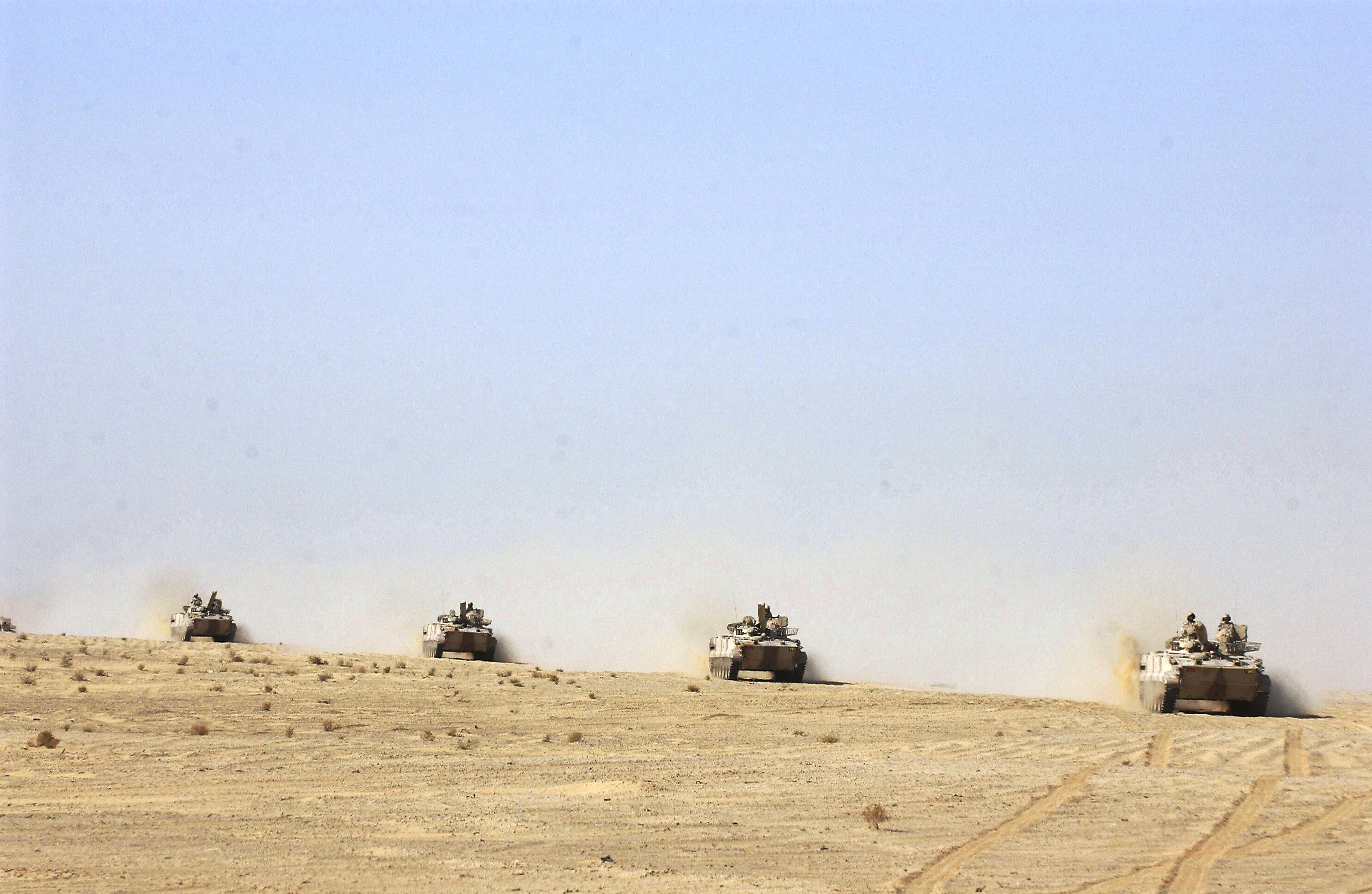 Marines from the 13th Marine Expeditionary Unit (13th MEU) 1st Light Armor Reconnaissance Battalion Landing Team (1st LAR BLT 1/1) stationed at 29 palms, Calif., conduct live fire desert training with the U.A.E. military, Dec. 14, 2003. The U.A.E. military is using the Soviet made BMP tank. The training is being conducted by Marines and Sailors supporting Expeditionary Strike Group 1 (ESG 1). ESG 1 is an example of the Navy and Marine Corps' commitment to the Secretary of Defense's vision to transform the U.S. Armed Forces for the 21st Century. ESG's are designed to enable the United States to conduct shaping operations in the Global War on Terrorism. ESG 1 is currently deployed to the Commander, U.S. Fifth Fleet Area of Responsibility in support of Operations Enduring Freedom and Iraqi Freedom.